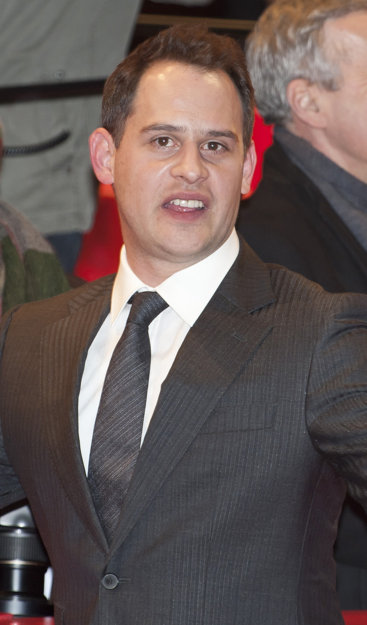 Moritz Bleibtreu, German actor, premiere of the film "Jud Süß - Film ohne Gewissen" at the Berlinale Palast